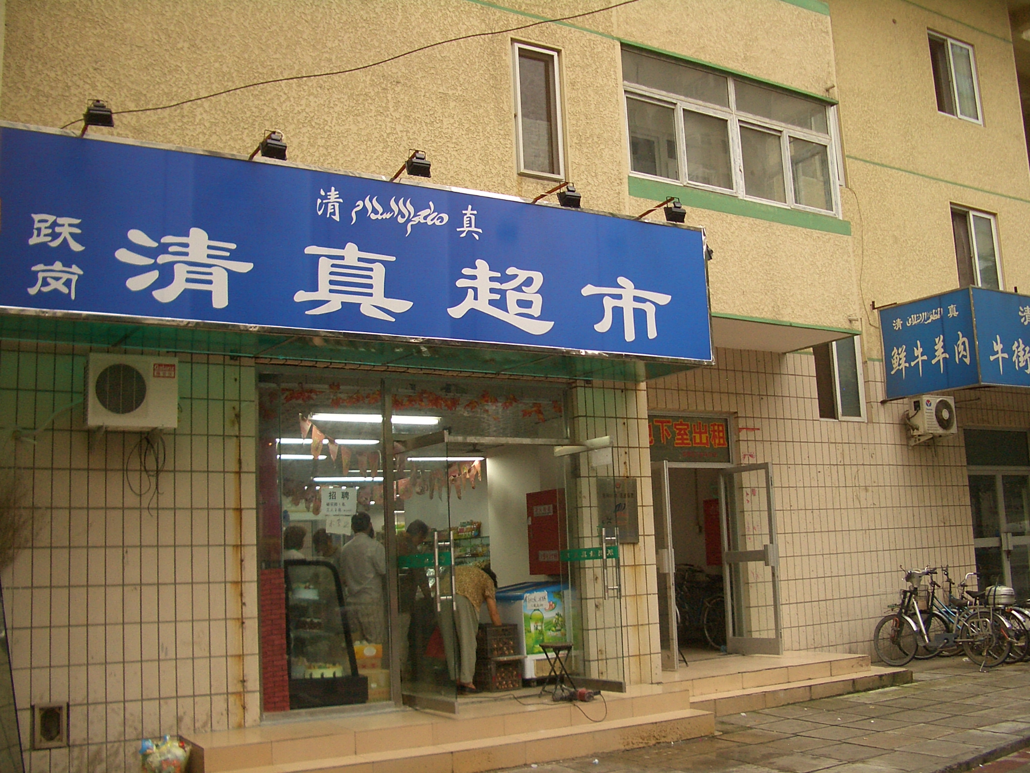 "Halal Supermarket" (S: 清真超市, P: Qīng​zhēn Chāo​shì​) A halal supermarket in Niujie, the Muslim neighborhood near Niujie Mosque, Beijing